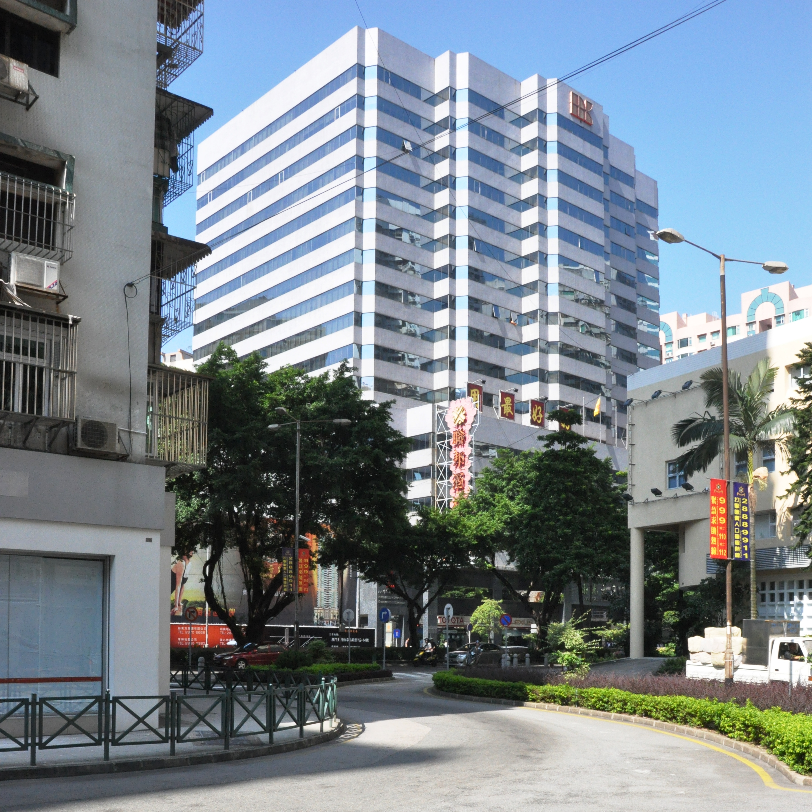 Nam Kwong Building, Macao